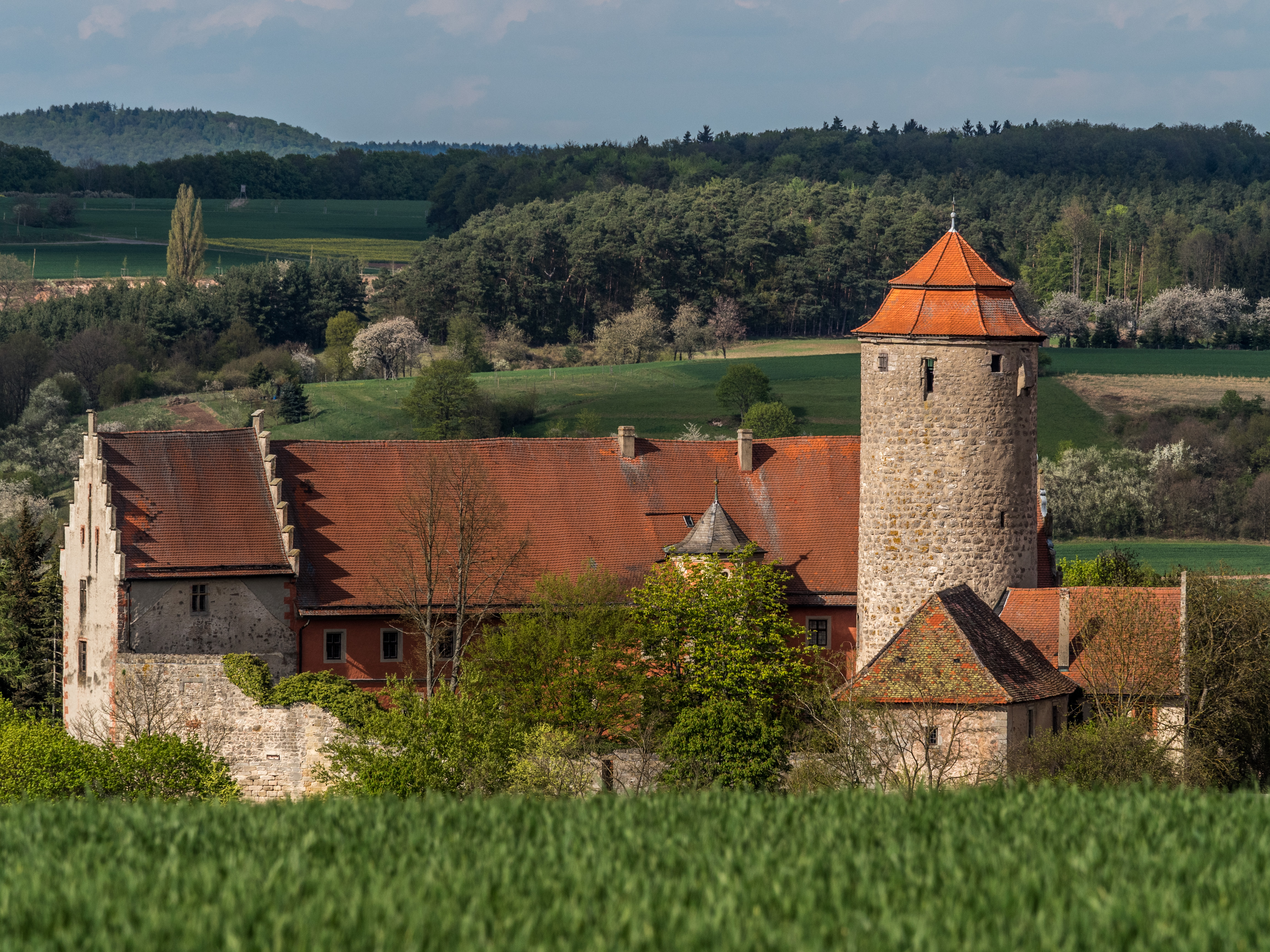 View from southwest on Lisberg castle